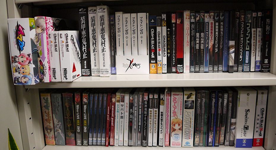 Nitroplus office.